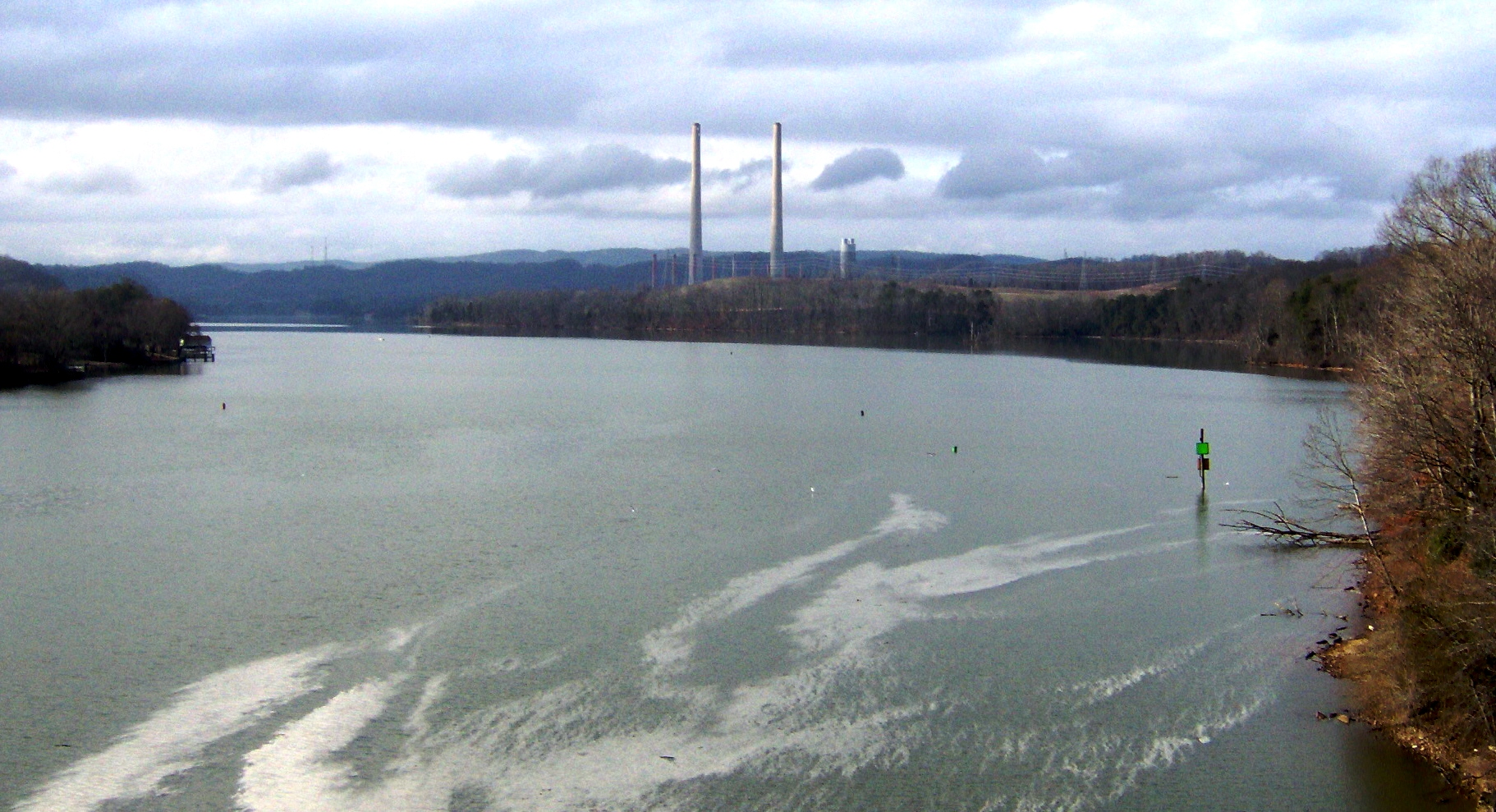 View from the N. Kentucky Rd. bridge across the confluence of the Clinch River and the Emory River (the river's mouth is on the right, at the bright green sign) toward the Kingston Fossil Plant in Kingston, Tennessee, in the southeastern United States. Appx. coordinates: N 35.88533 W 84.48892, looking northwest.